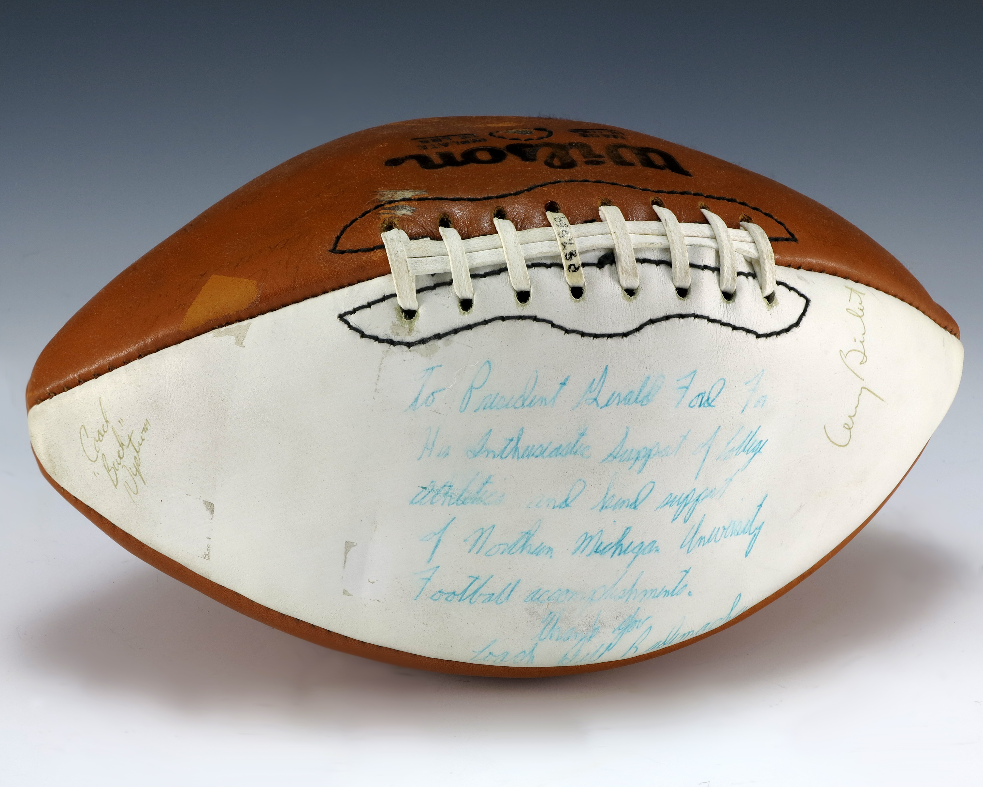 Football signed by the Northern Michigan Wildcats, which was given as a gift to Gerald R. Ford. On the white quarter of the football an inscription written in blue can be found.